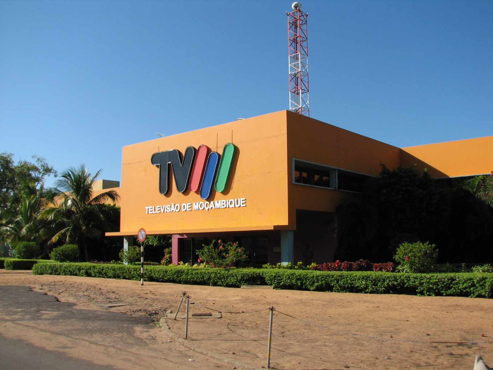 TVM studios in Maputo, Mozambique